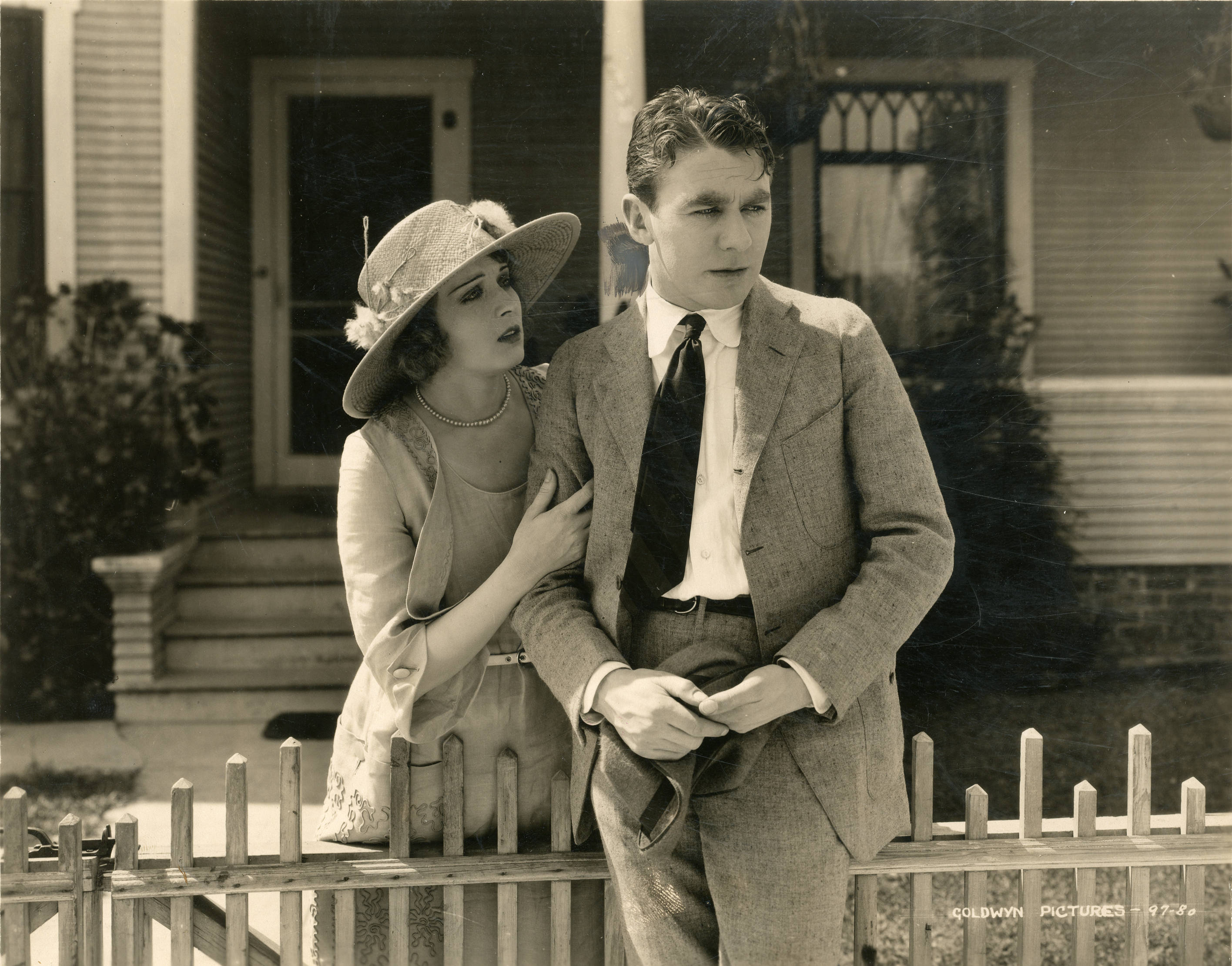 A scene from the American film The Great Accident (1920), which played at the Clemmer Theater, Seattle. Includes Tom Moore. Date stamped July 28, 1920. Subjects: motion pictures, actors